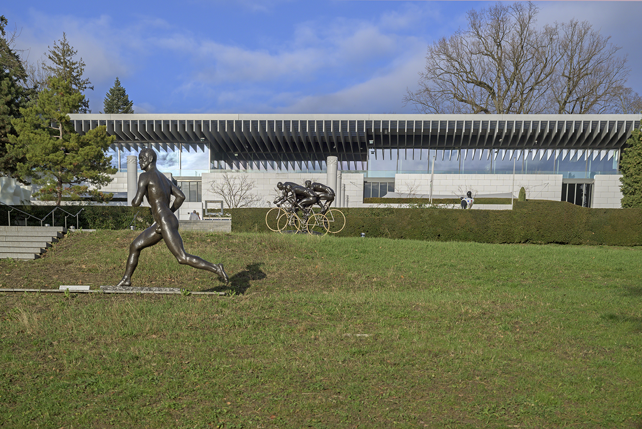 Olympia Museum, Lausanne, Switzerland